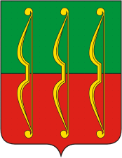 Velikoluksky rayon (Pskov oblast), coat of arms